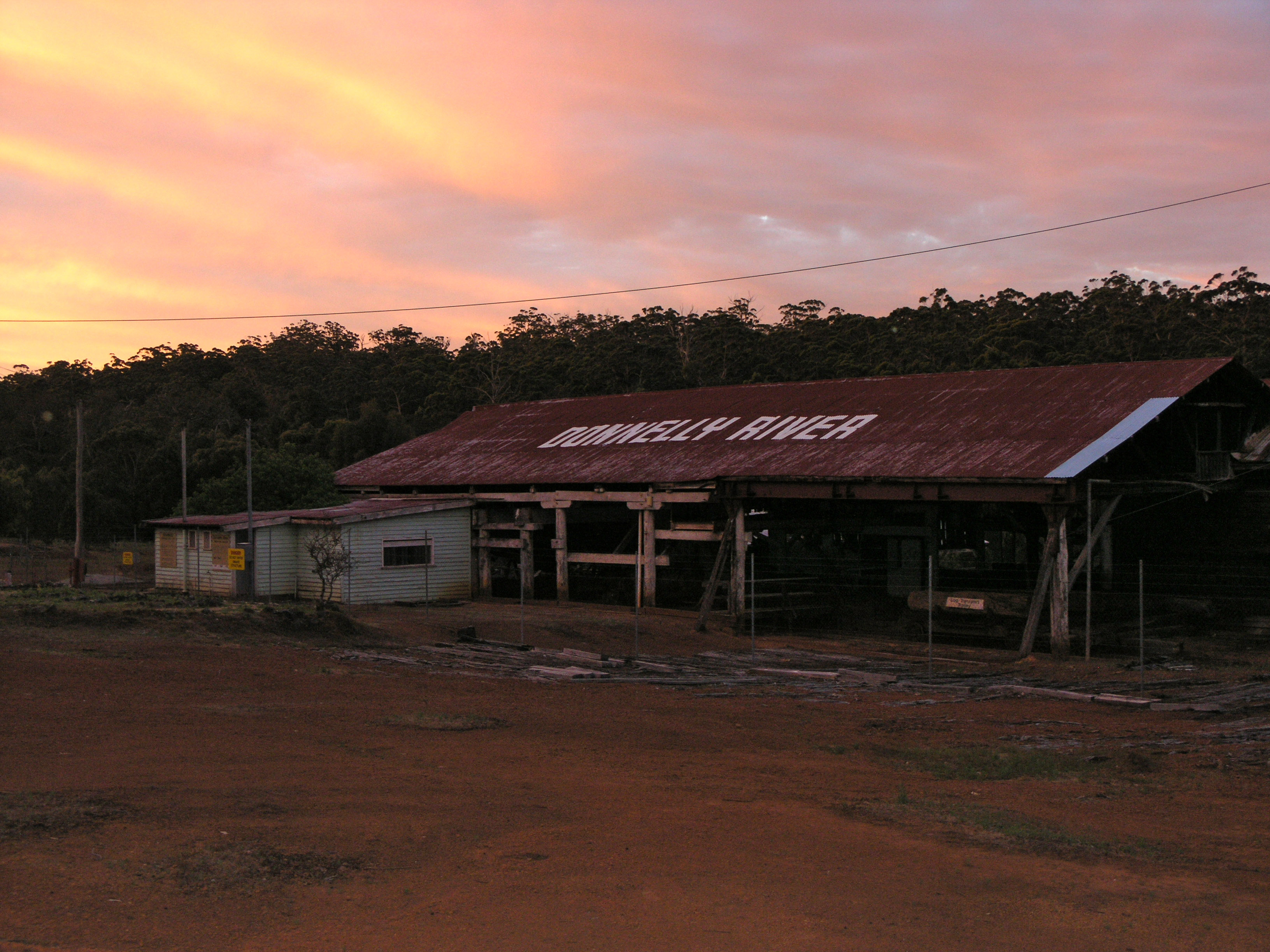 Donnelly River, Western Australia, taken for this page